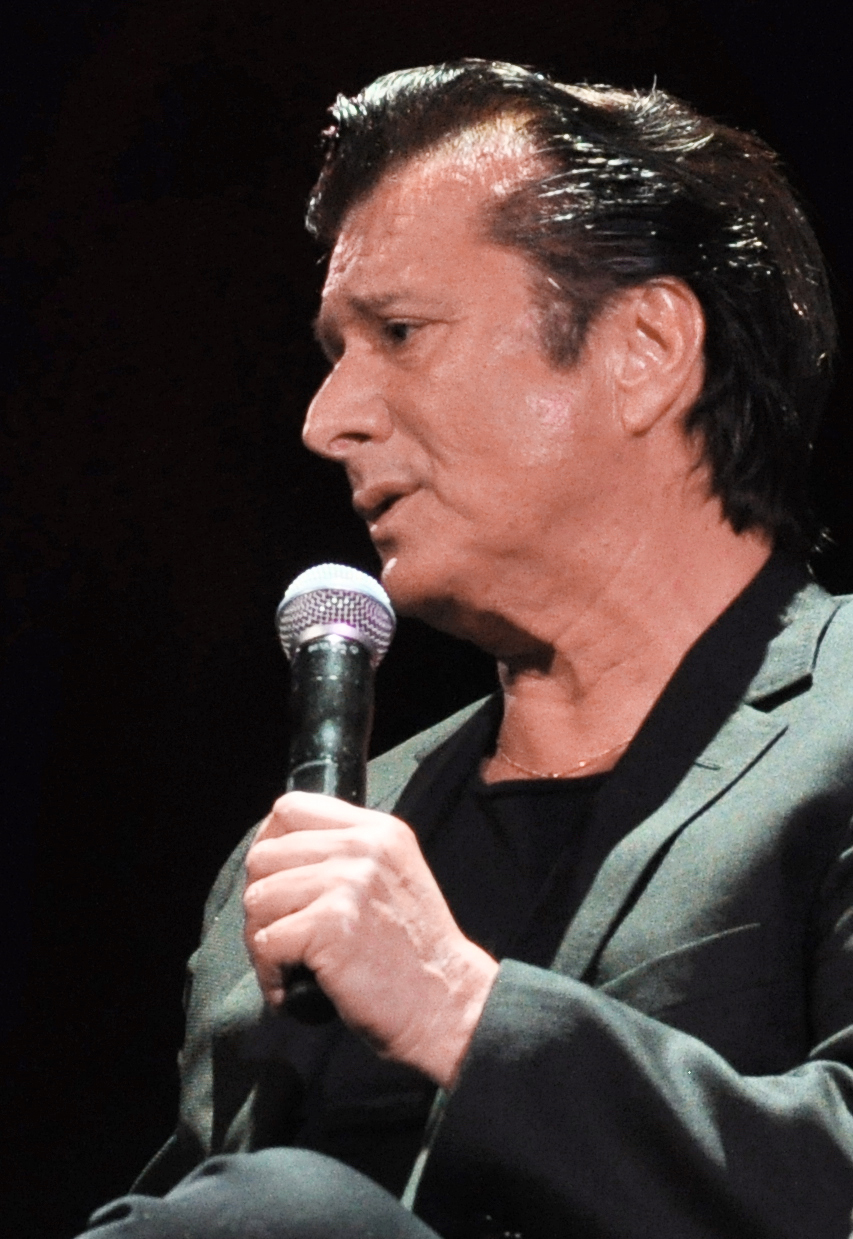 Steve Perry on the keynote panel, "Going Up Yonder: How Music Makers and Writers Confront Loss and Grief", Pop Conference 2019, MoPOP, Seattle Center, Seattle, Washington.